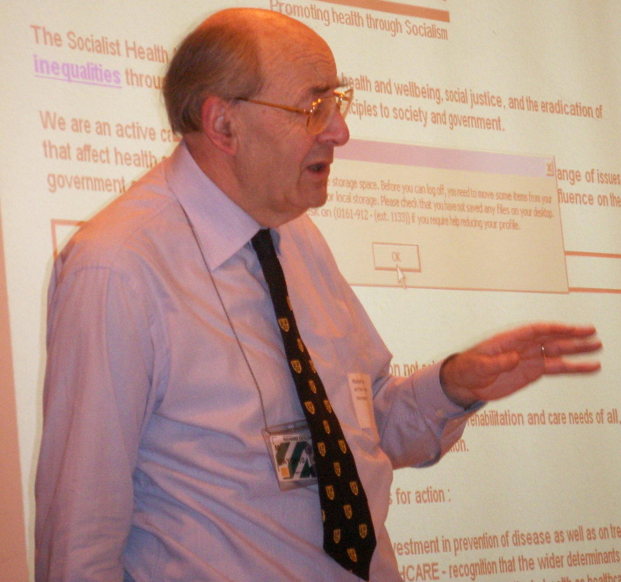 I took this picture of Richard Taylor in January 2007